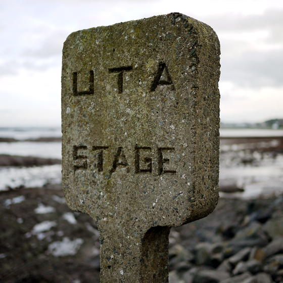 Old concrete bus stop sign on the Donaghadee Road, Millisle, Northern Ireland. UTA stands for the Ulster Transport Authority which controlled public transport in Northern Ireland from 1948 to 1967.